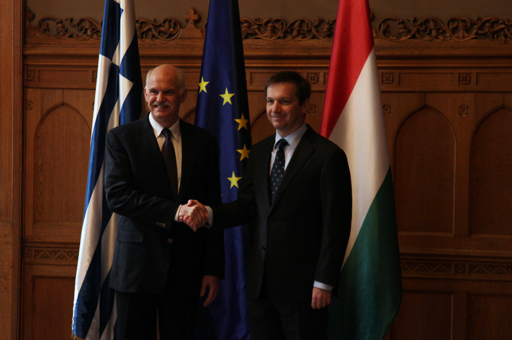 PM of Greece George Papandreou and PM of Hungary Gordon Bajnai in 2010.